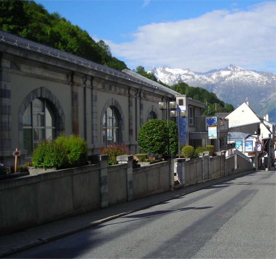 Looking west along main street in Barèges, with thermal spa (left)